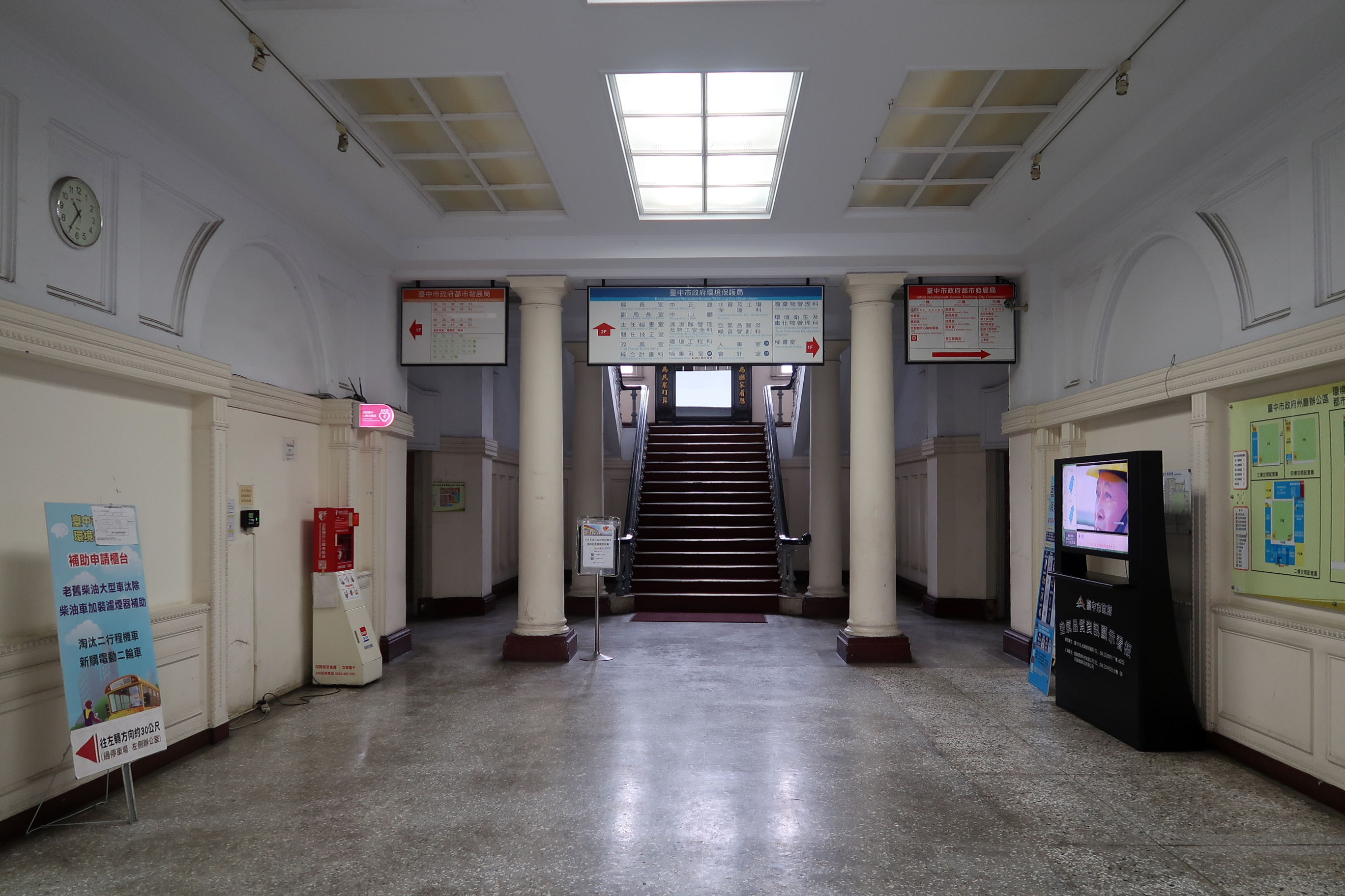 Taichung Prefectural Hall Entrace lobby